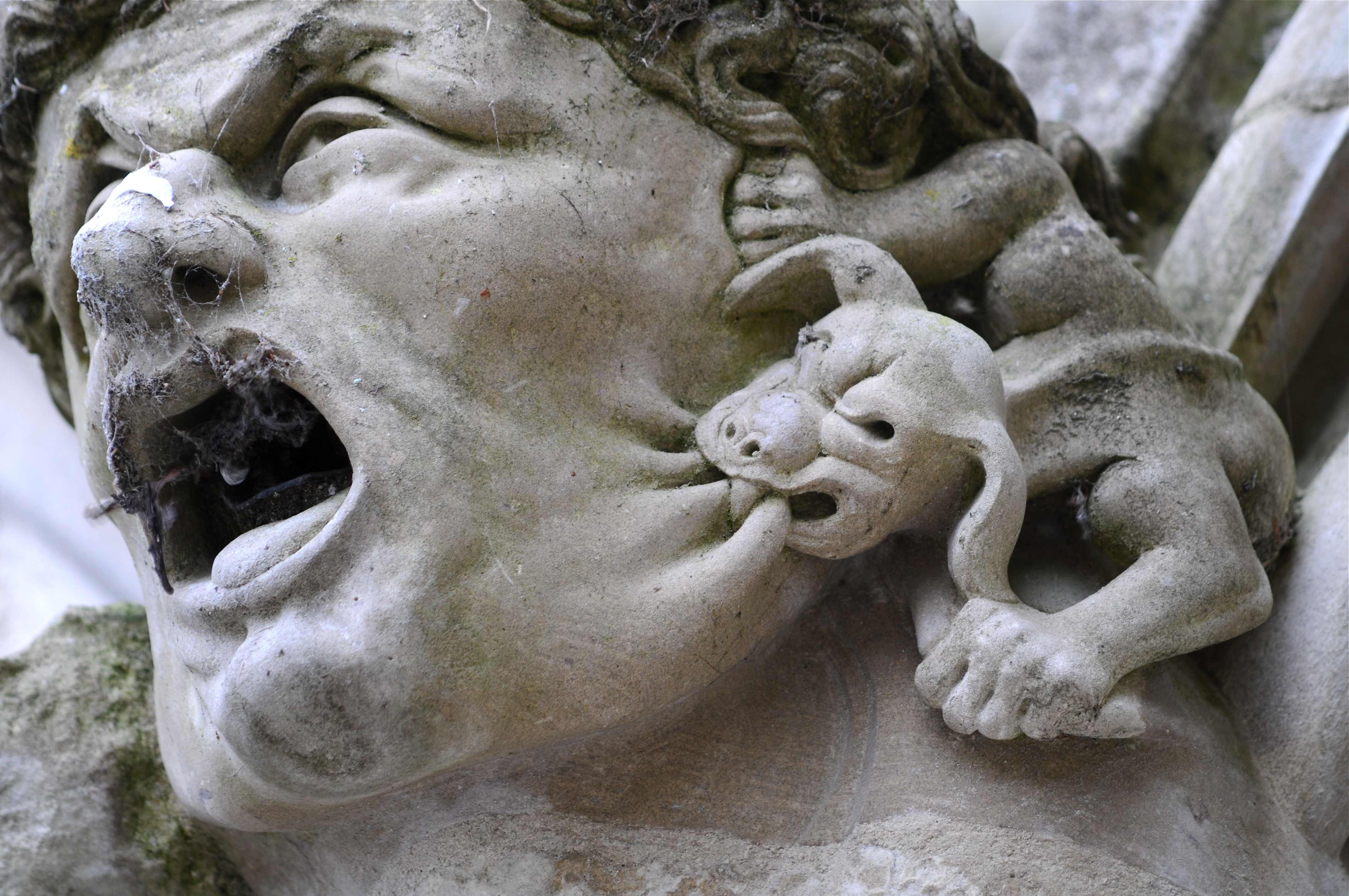 Gargoyle on west front at Salisbury Cathedral.